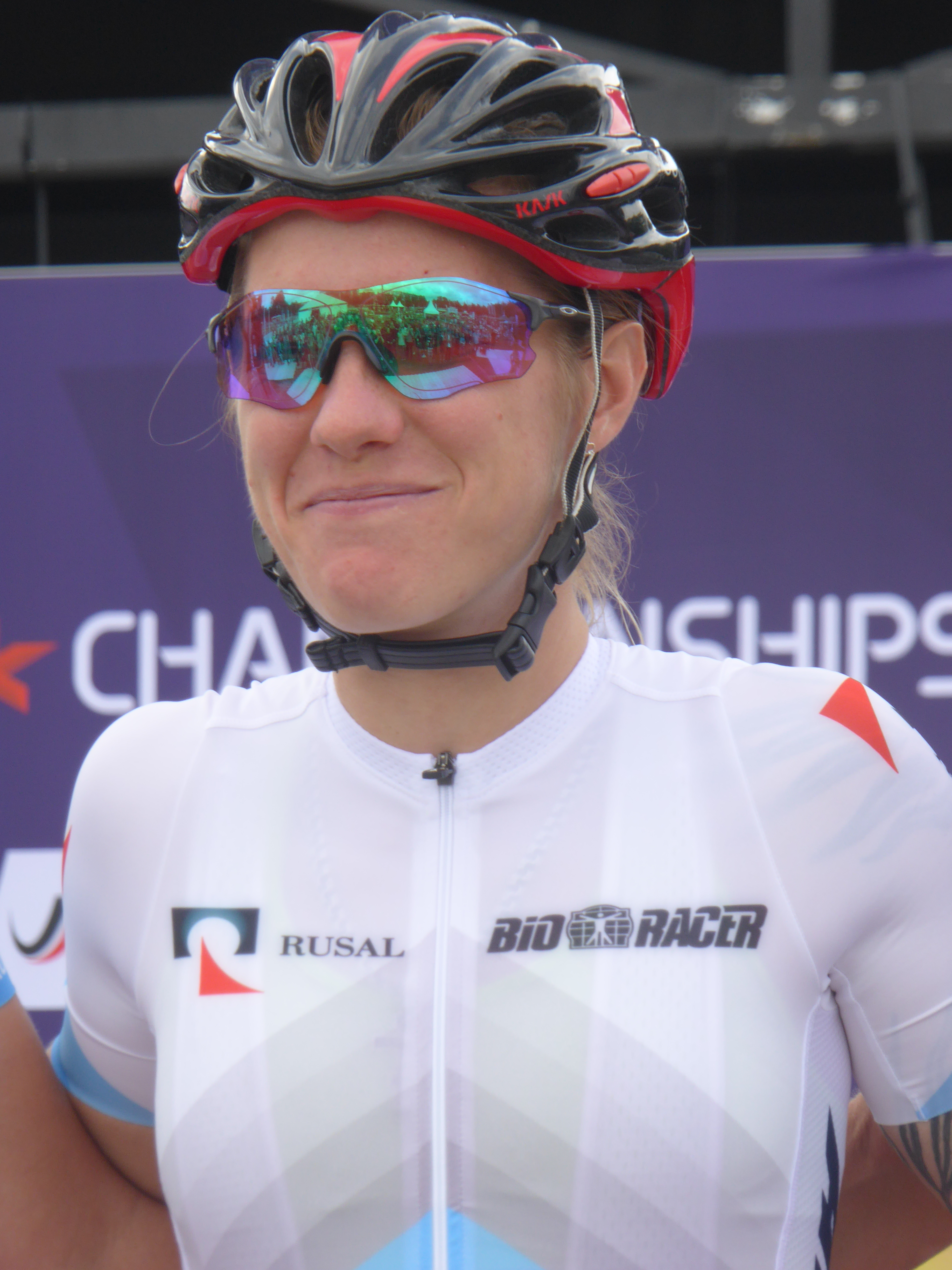 Yelyzaveta Oshurkova (Russia), prior to the women's road race at the 2018 UEC European Road Cycling Championships in Glasgow.